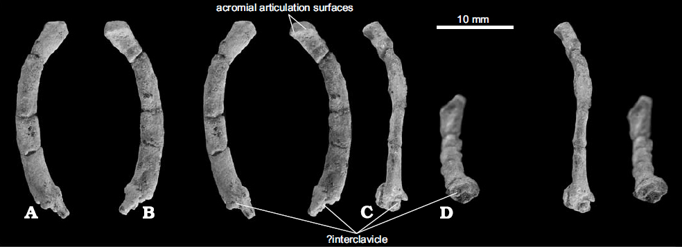 Multituberculate mammal Catopsbaatar catopsaloides (Kielan−Jaworowska, 1974), PM 120/107, Upper Cretaceous, red beds of Hermiin Tsav, Hermiin Tsav I locality, Gobi Desert, Mongolia. Left clavicle, associated with a tiny fragment of ?interclavicle (no. 11 in Fig. 1B). Stereo−photographs in anterior (A), posterior (B), and medial (C) views. D. Stereo−photo of the articular medial surface, showing damaged fragment of ?interclavicle.